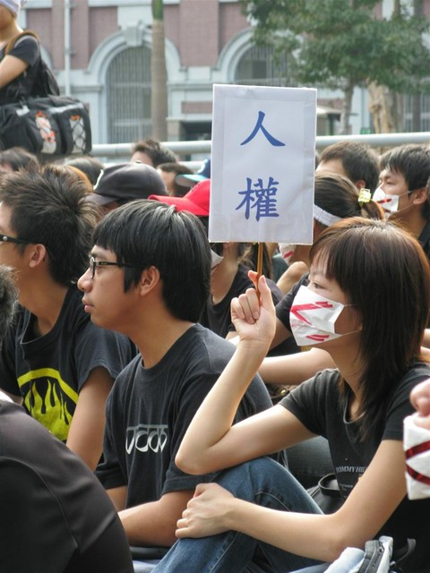 This picture was shot during the Wild Strawberry student movement on 11/06/08 and shows a female student holding a sign with the words 人權 (human rights).